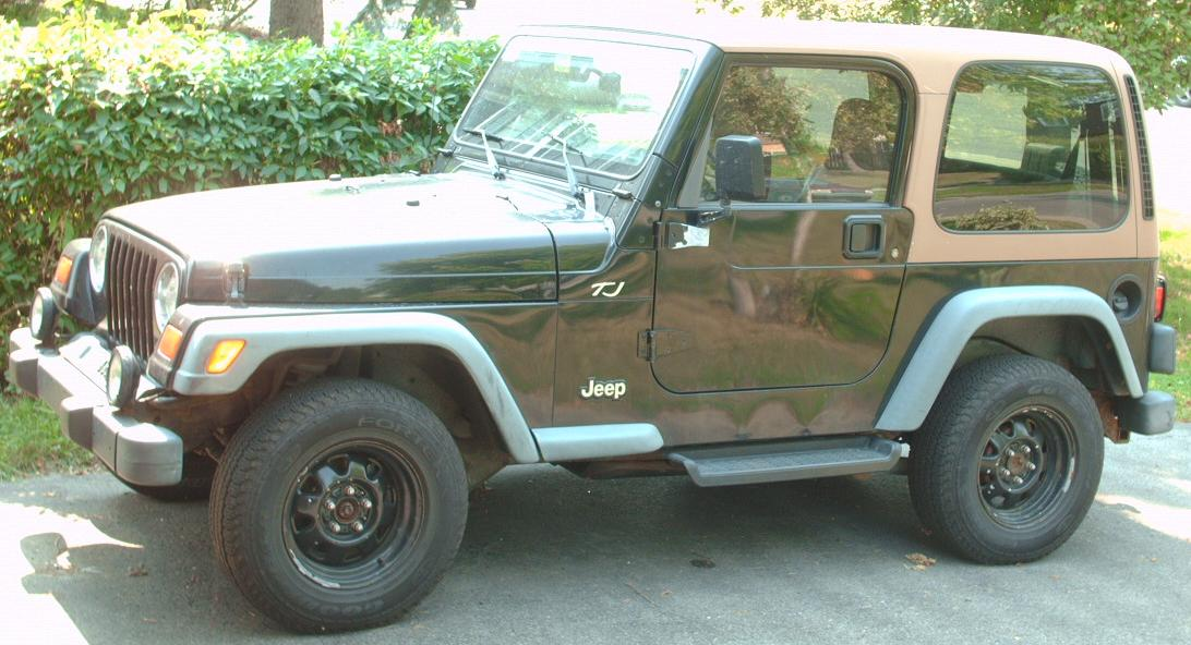 1997-2006 Jeep Wrangler photographed in Montreal, Quebec, Canada.